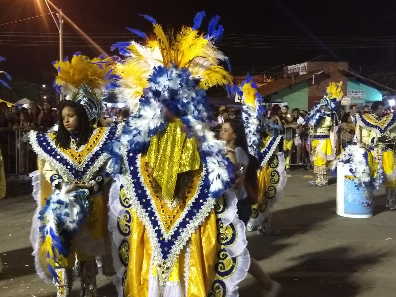 Os Tremendões